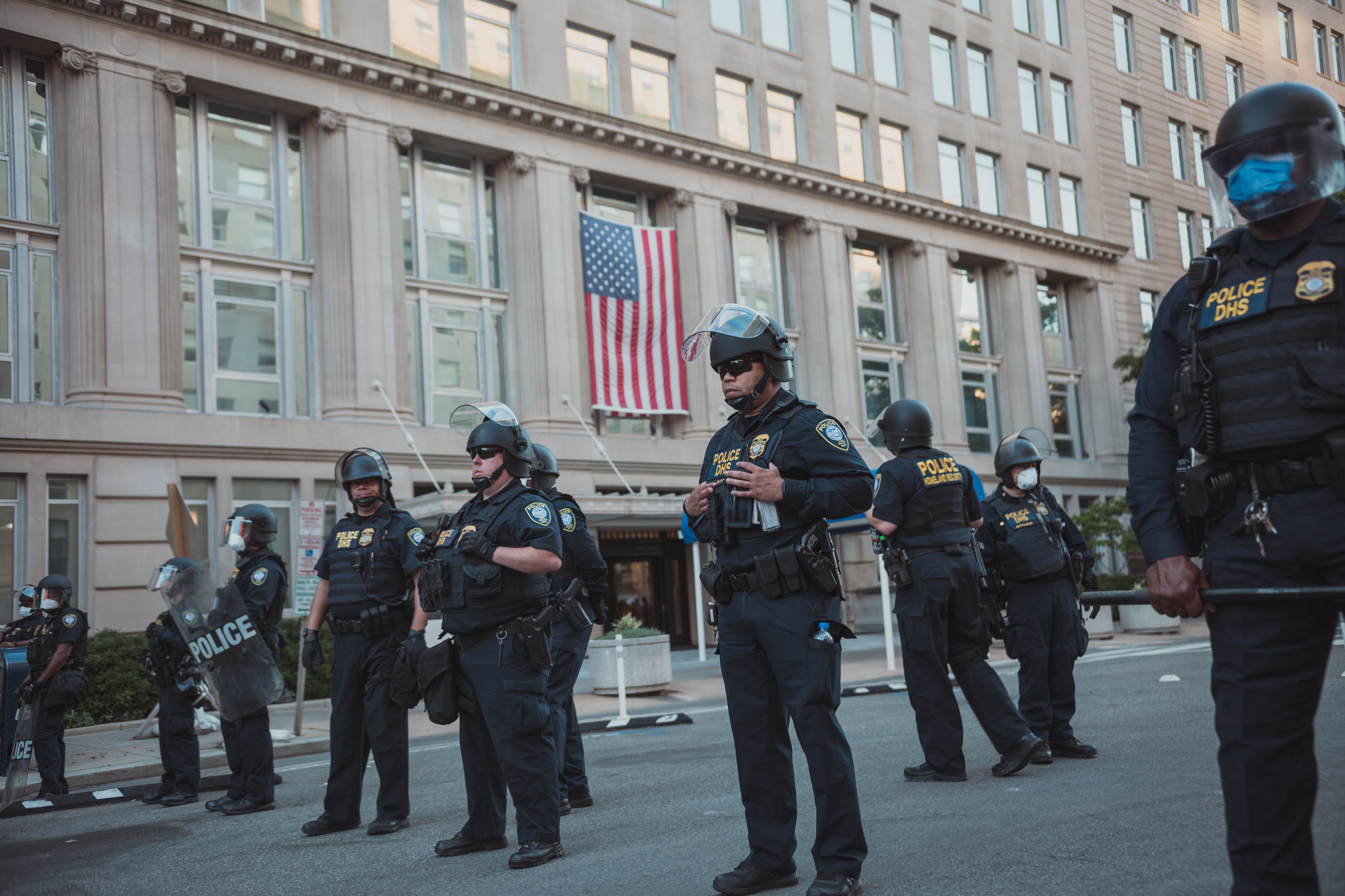 Photo by Yash Mori, 06.02.20